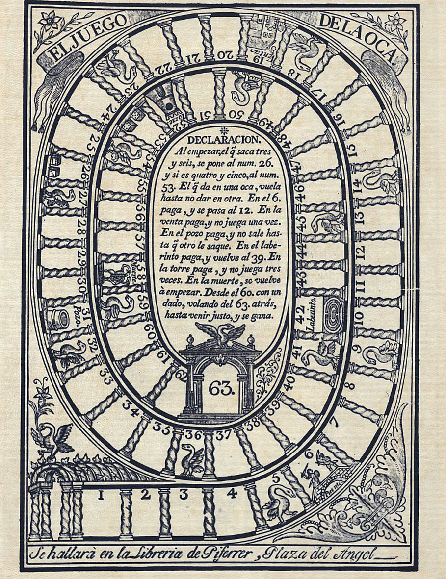 Game of the goose (19th century) from the print shop of Juan Francisco Piferrer in Barcelona.